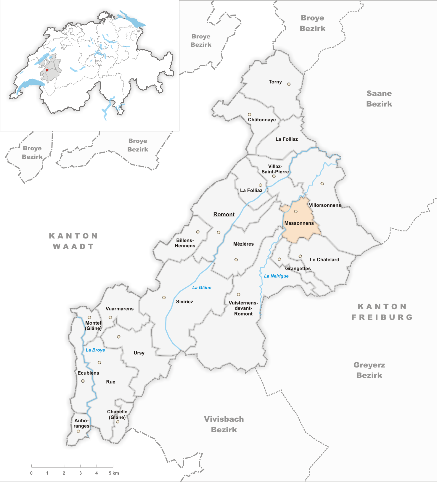 Municipality Massonnens